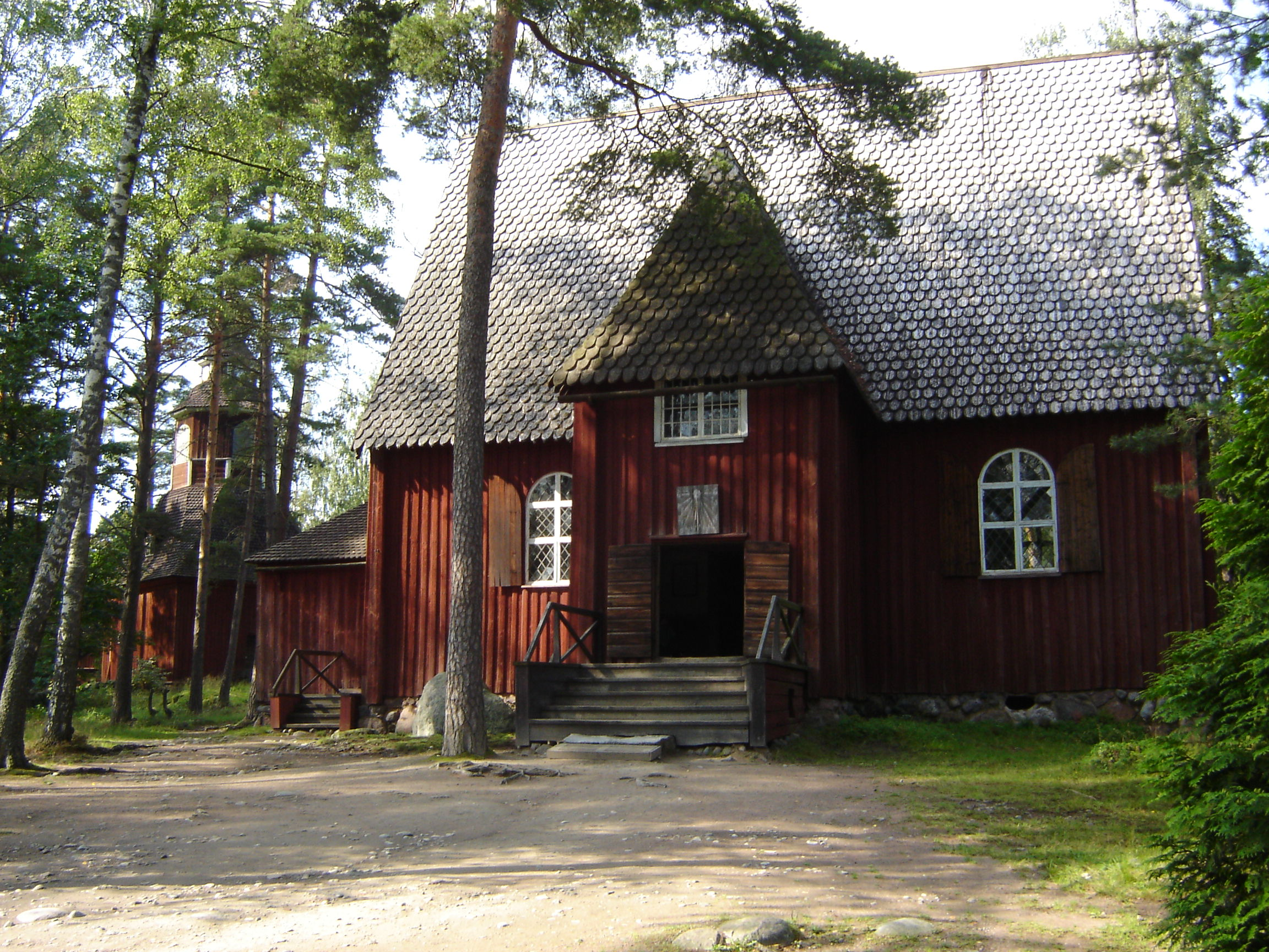 The old church of Karuna, Finland (1685), located today at Seurasaari open air museum in Helsinki